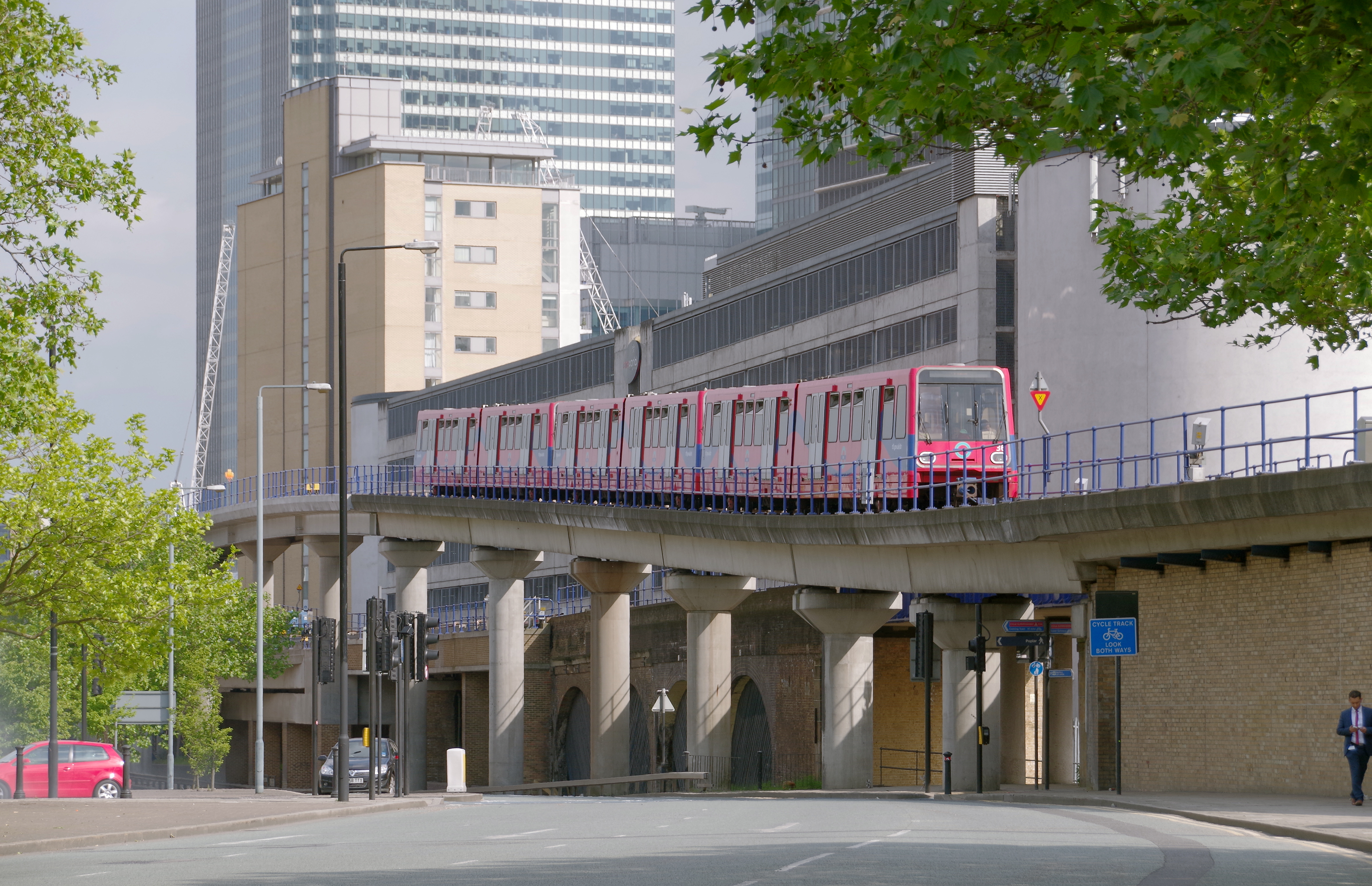 A southbound DLR train, working a Bank to Lewisham service, climbs on to the flyover at Westferry.